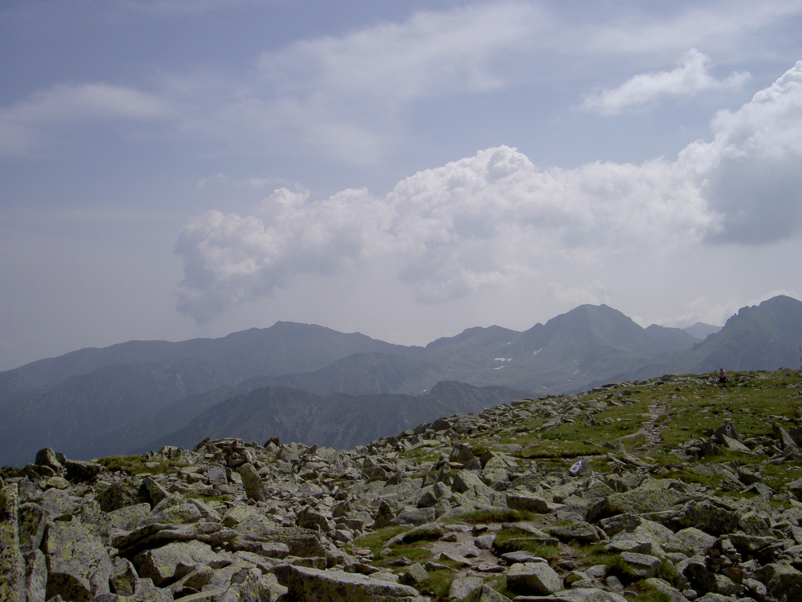 Mare Peak